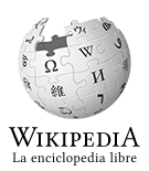 Wikipedia logo 2.0